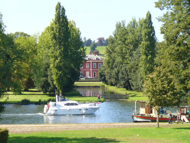 View across the River Thames from Remenham, Berkshire to Fawley Court, Buckinghamshire. The country house has its own wide cut linking it with the river.